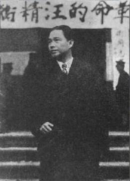 Wang Jingwei before july 15th,1927.